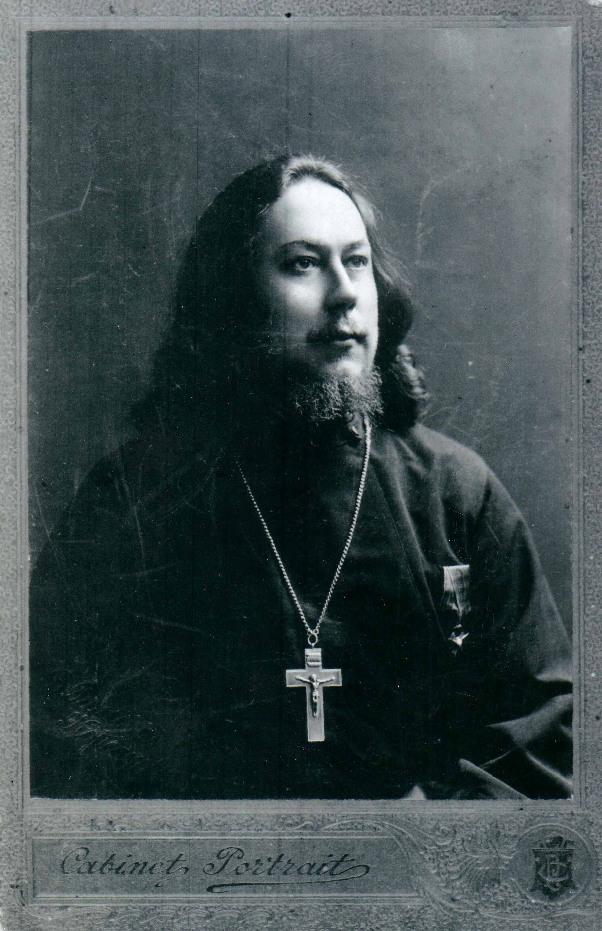 St. John Kochurov, priest of Tsarskoye Selo